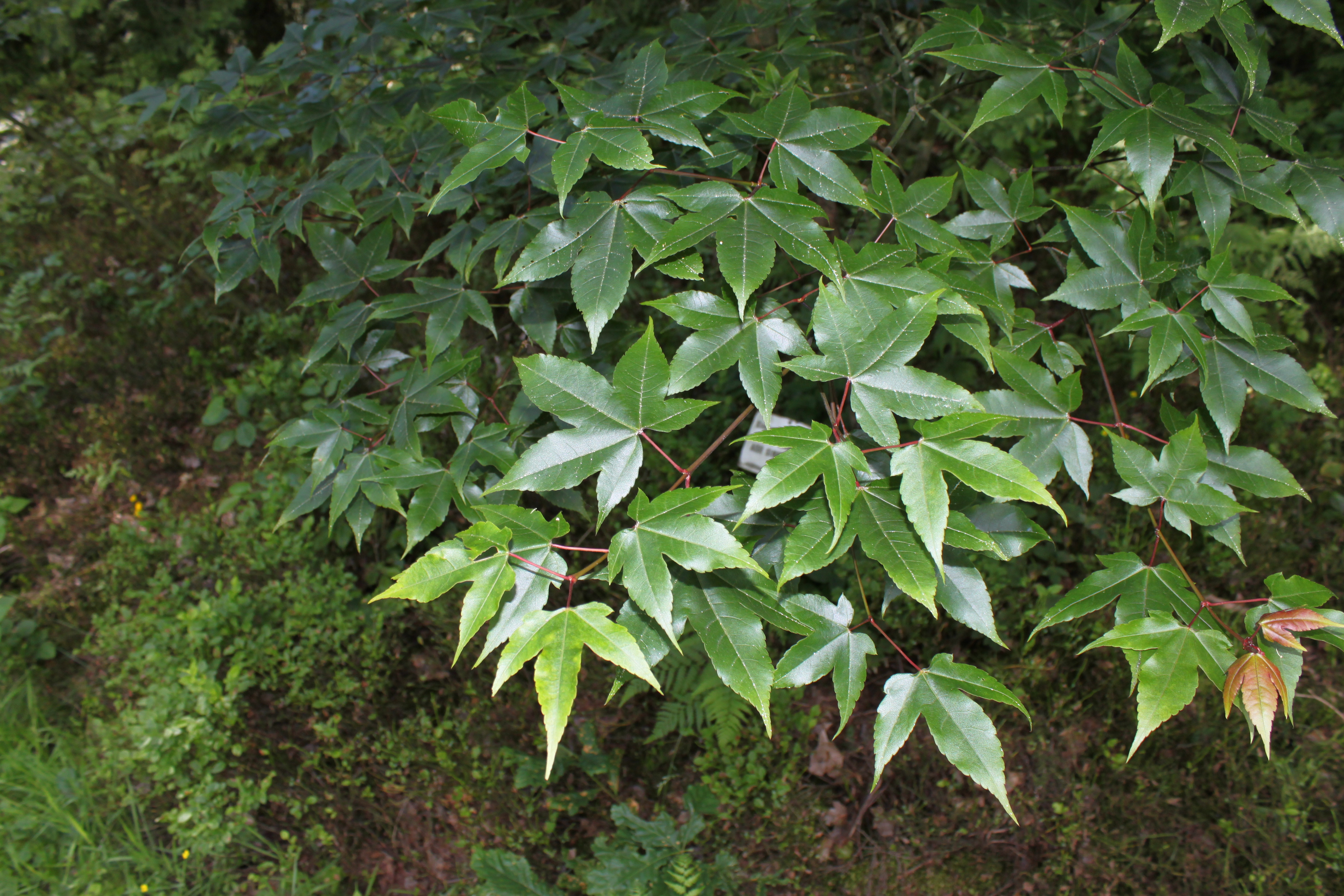 Acer sinense in Rogów Arboretum, Poland